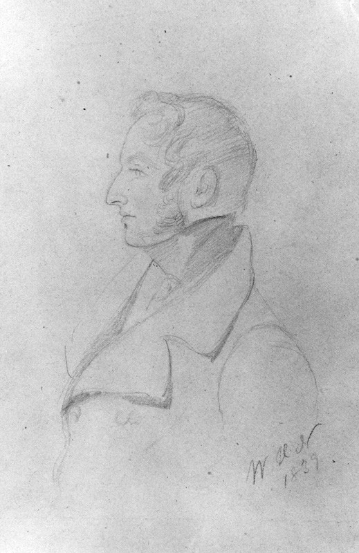 Henry Charles Angelo by W.H. Nightingale pencil, 1839 7 5/8 in. x 5 3/8 in. (193 mm x 136 mm) Given by R. Farquharson Sharp, 1923 Primary Collection NPG 2009a